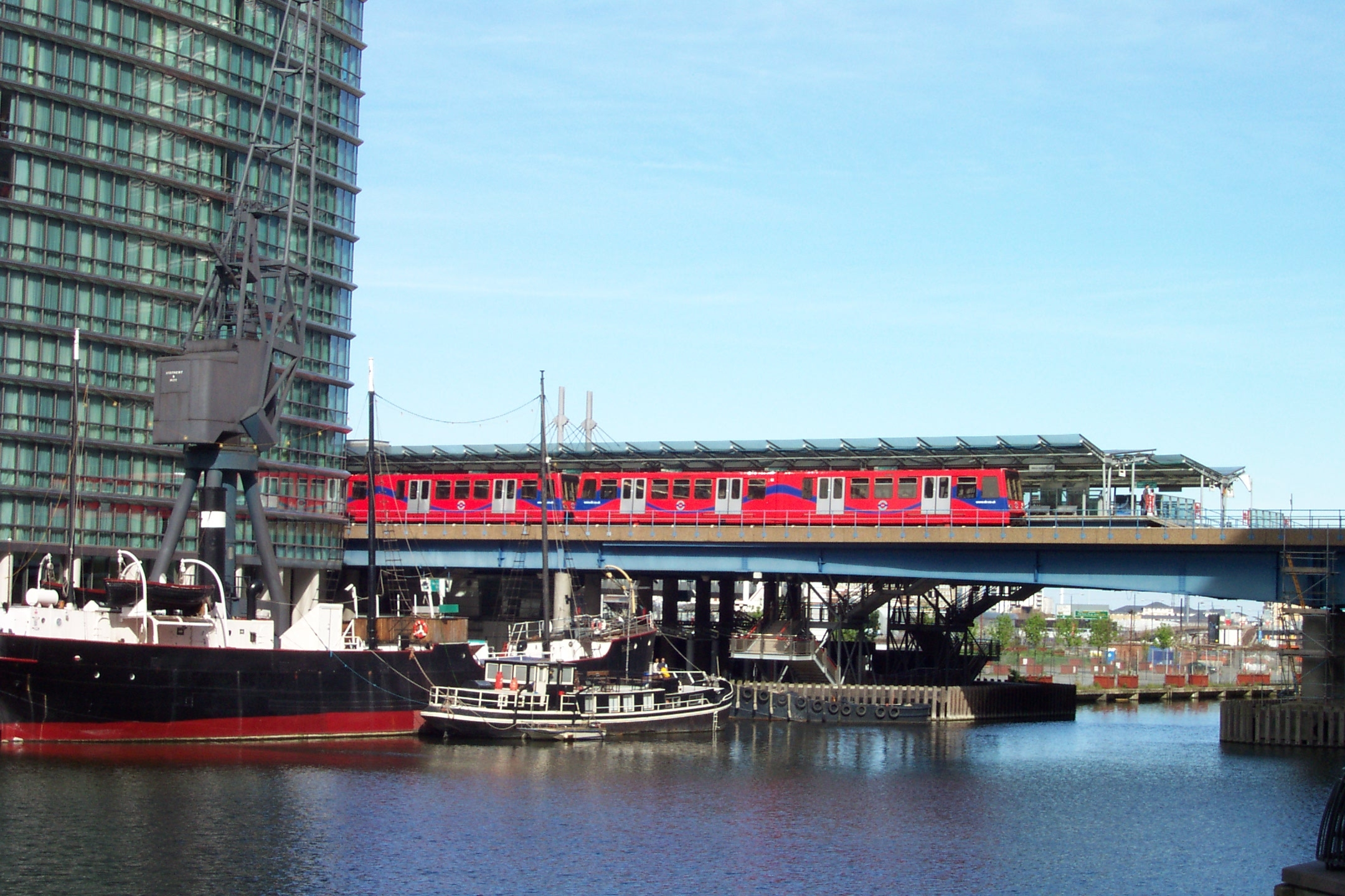 West India Quay station on the Docklands Light Railway.